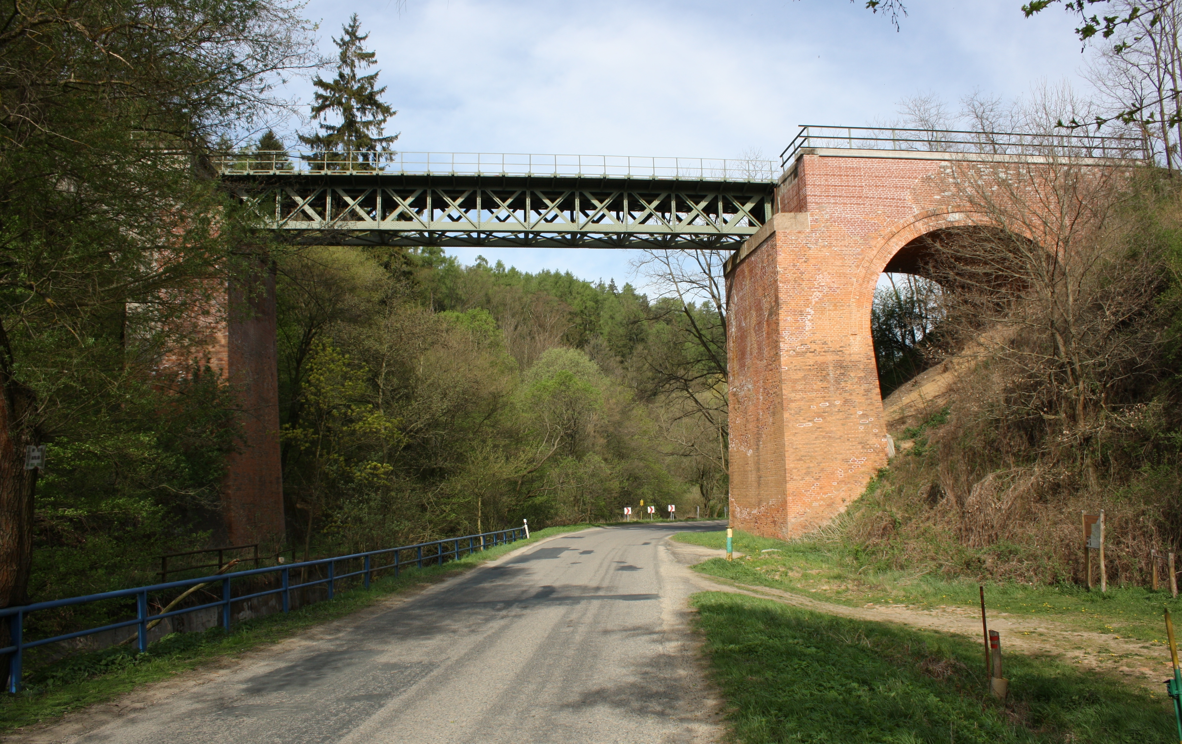 Střelice u Brna, bridge. Brno-Country District, Sout Moravian Region, Czech Republic Project: Chráněná území This photograph was taken with a DSLR from WMCZ's Camera grant.